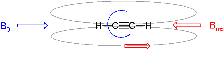 induced magnetic field in alkynes in an external magneitc field